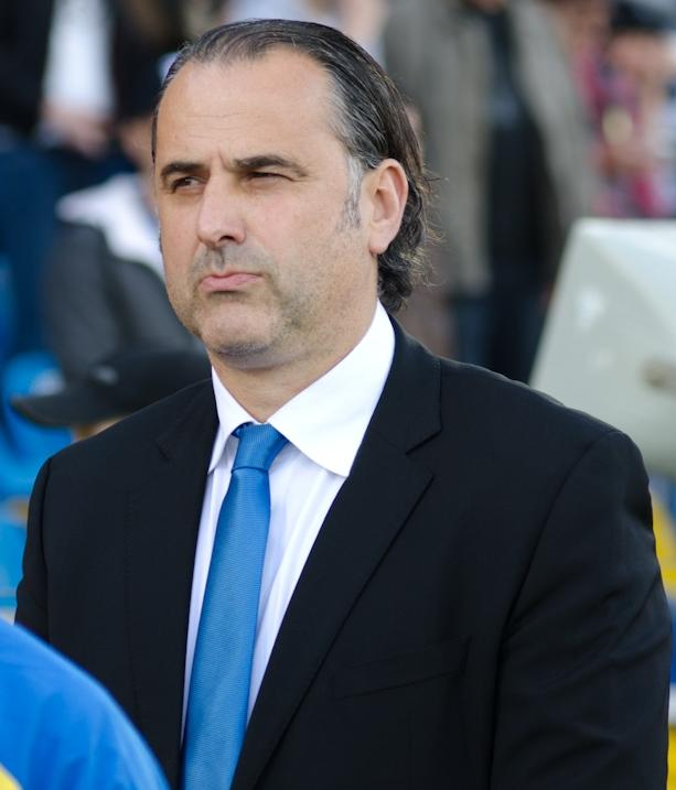 Miodrag Božović coaching FC Rostov in 2013.